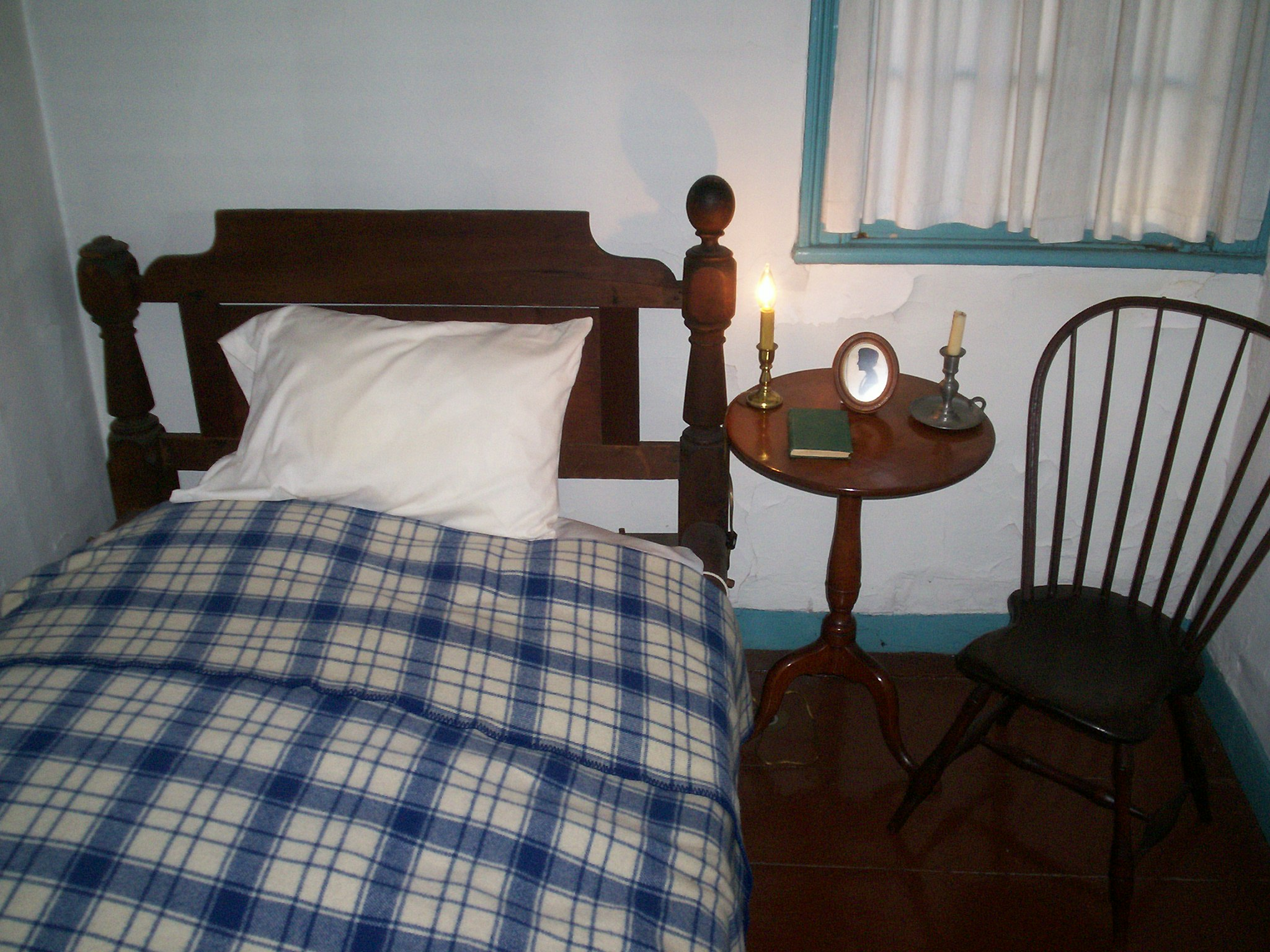 Alleged bedroom of Virginia Eliza Clemm Poe at the Poe Cottage in the Bronx, New York. The bed is presumed to be the bed in which she died.